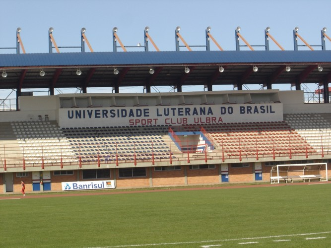 Stadium of Sport Club Ulbra in Canoas-RS.